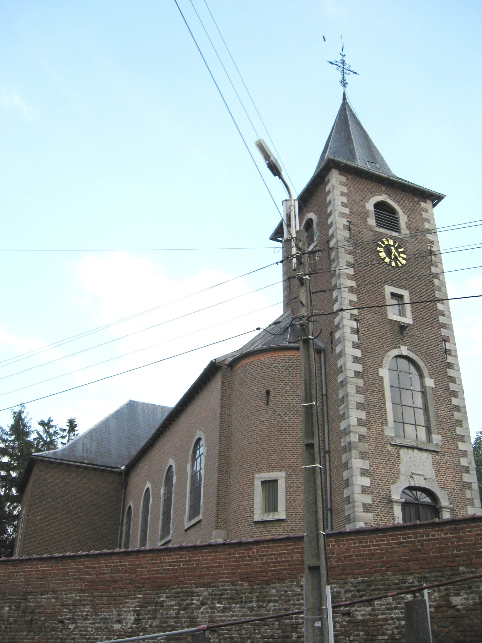 Church of Saint-Maurice in Rosoux-Crenwick (Rosoux), Berloz, Liège, Belgium